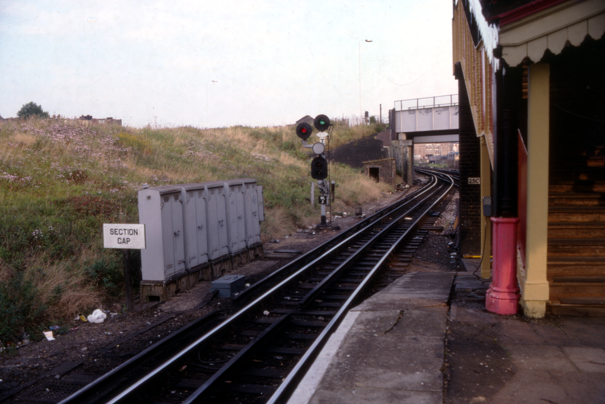 The LMS installed an unusual colour light signalling system on two London suburban railway lines, these being on the Euston - Watford dc (local) lines and on the LTS route from Fenchurch Street that was largely shared with District Railway services to Upminster. This image shows a junction signal at Willesden Junction station. The green signal is for the line towards Euston / Elephant & Castle / Broad Street via Primrose Hill. The route to the left with the red signal leads to the North London Line and was used by trains to Broad Street via Hampstead Heath. The junction is out of sight just beyond the bridge abutment. Filmed by me in 1986, shortly before the line was resignalled.